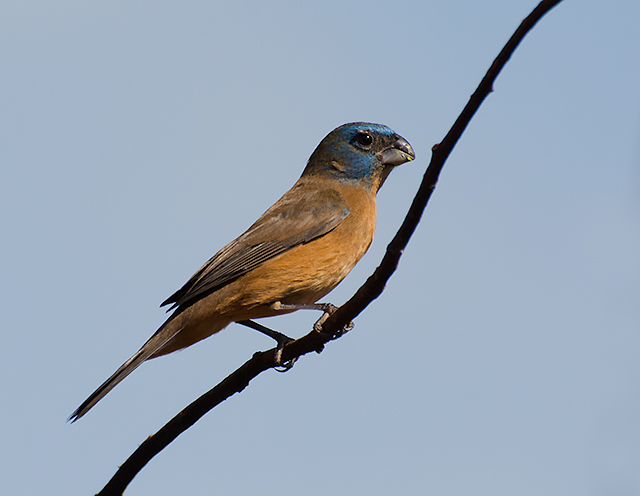 Glaucous-blue grosbeak (Cyanoloxia glaucocaerulea)